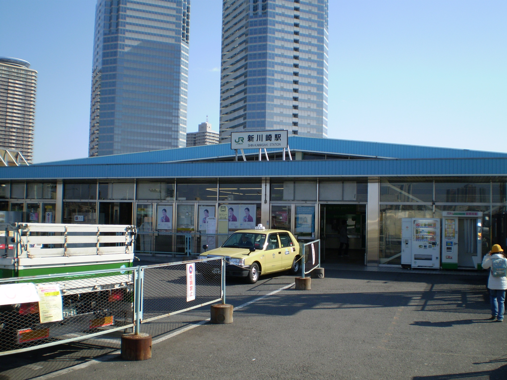 This is the Shin-Kawasaki Station